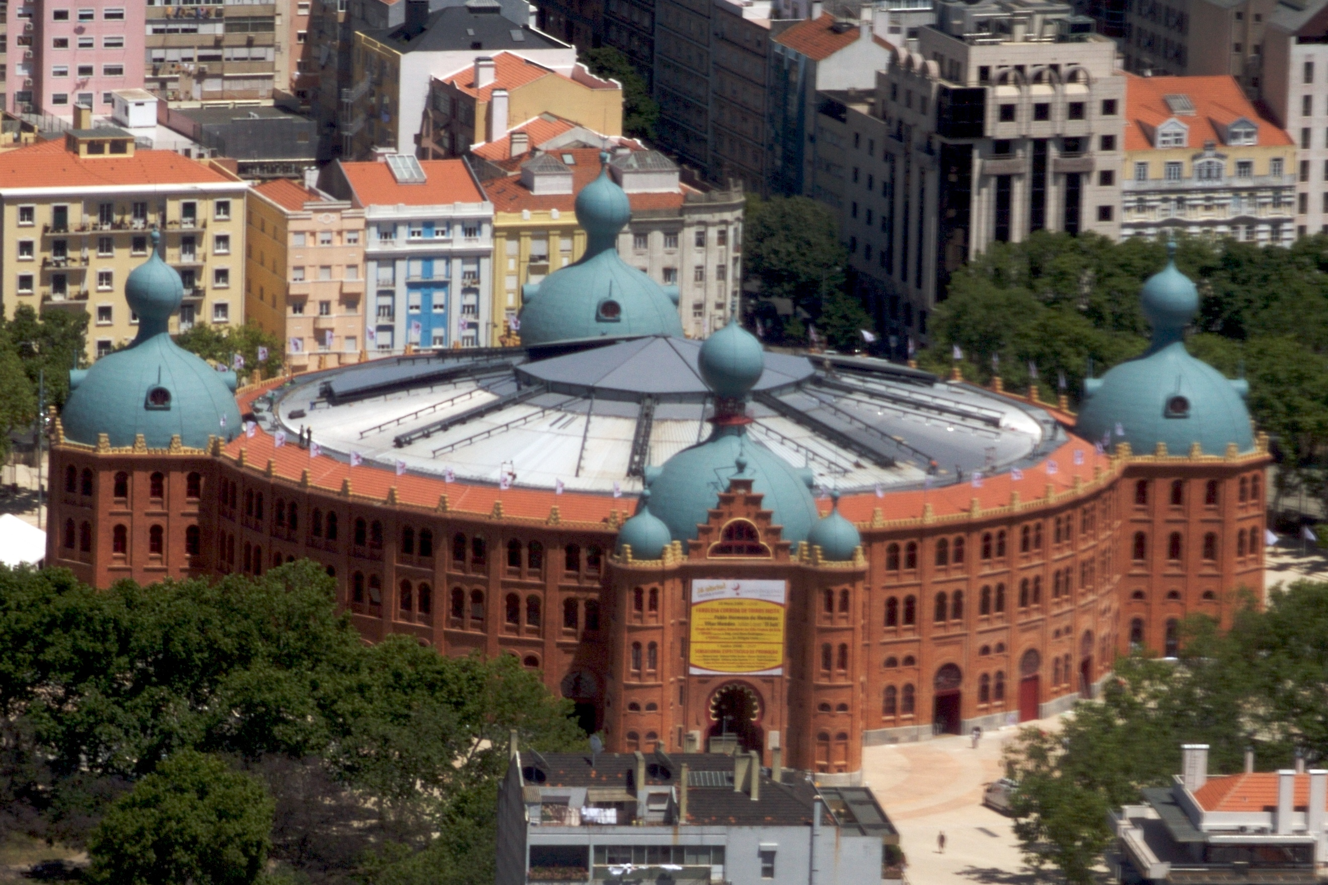 Aerial photo of recently renovated Bullfighting ring in Lisbon. Taken through (Dirty) plane window while landing in Lisbon.